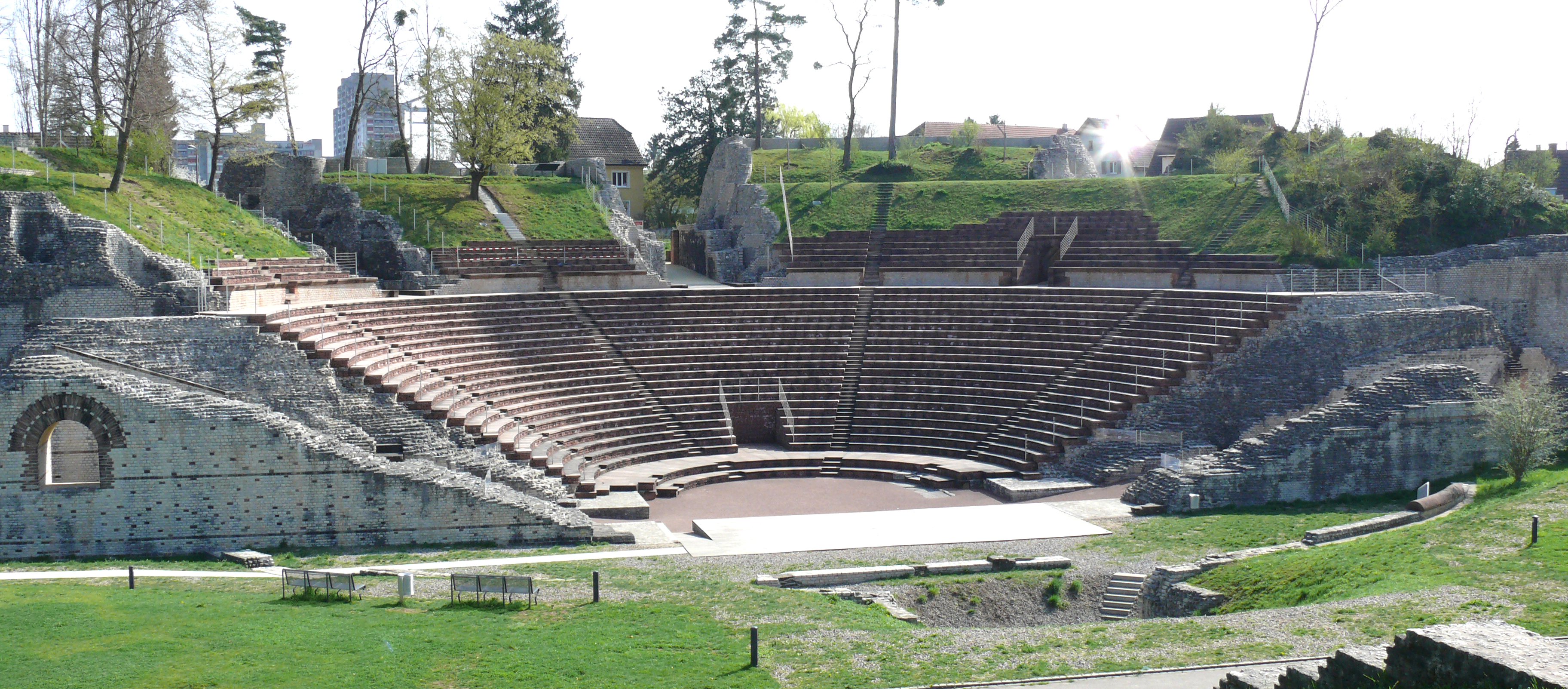 The Roman theater at Augusta Raurica (Augst, Switzerland).